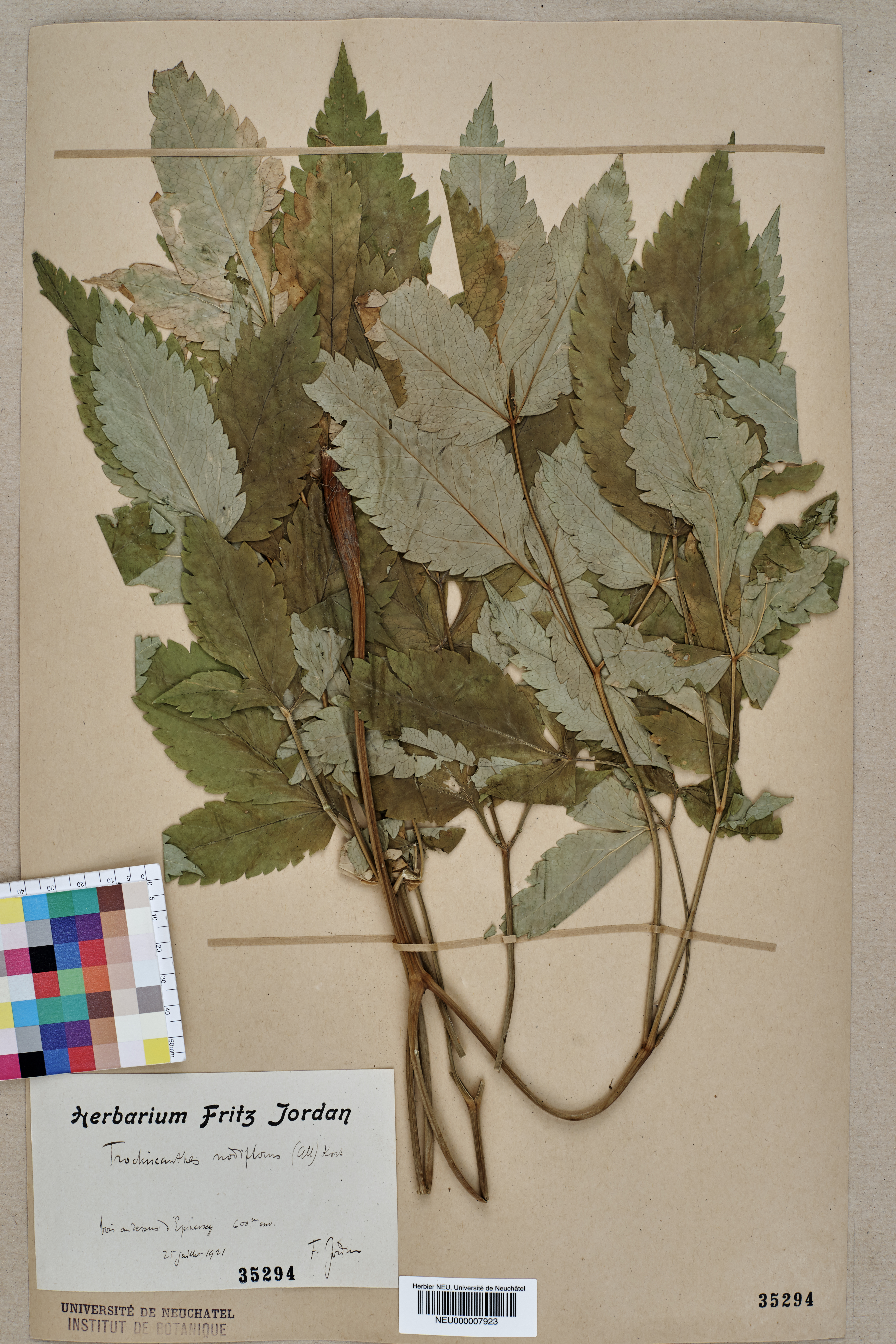 Dried pressed specimen of Trochiscanthes nodiflorus